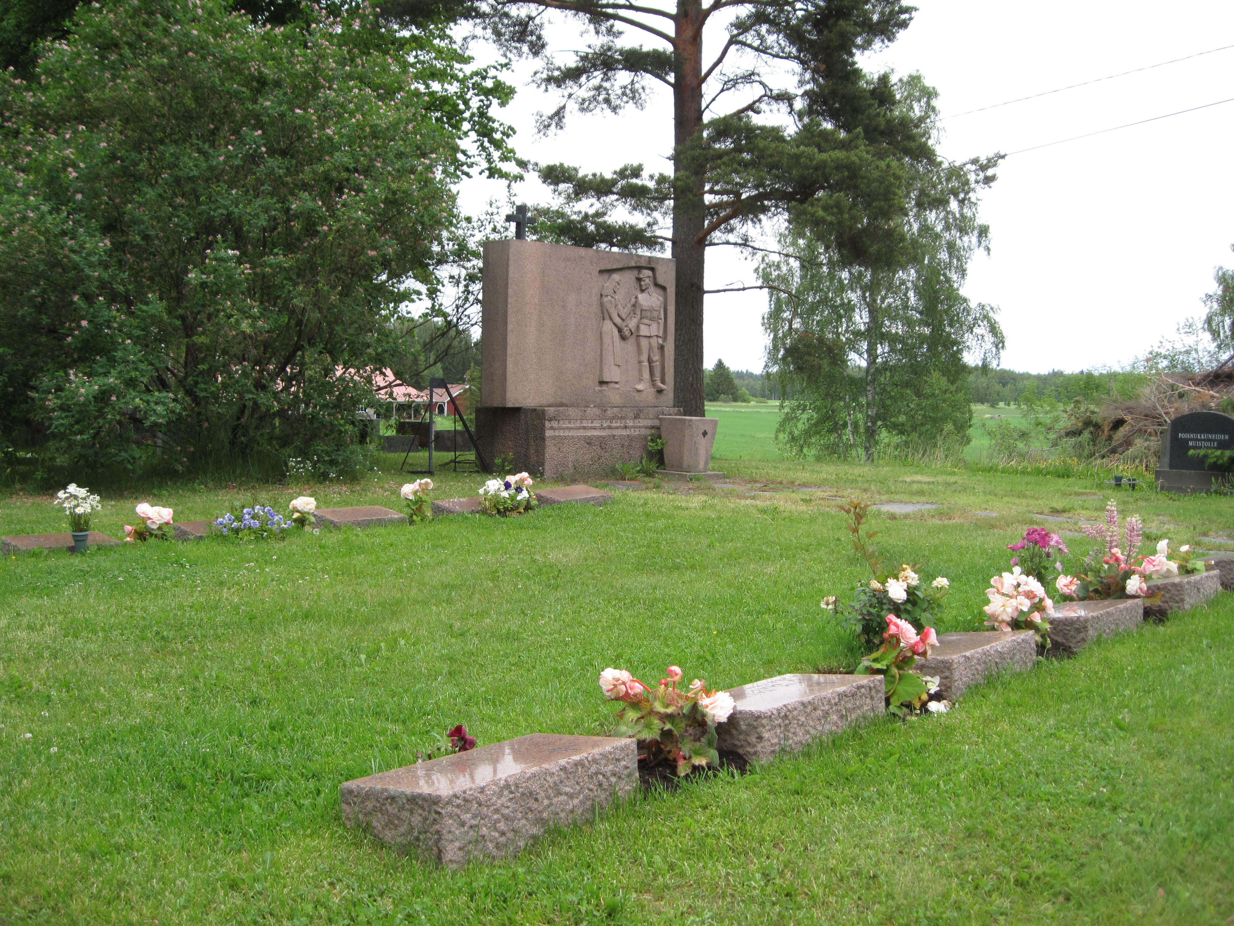 Military cemetary at church in Metsäkansa, Finland